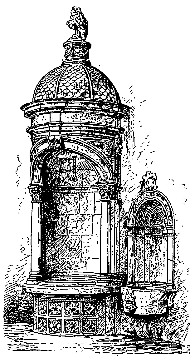 Detail (Figure 38) from page 167 of Palustre's L’Architecture de la Renaissance, 1892